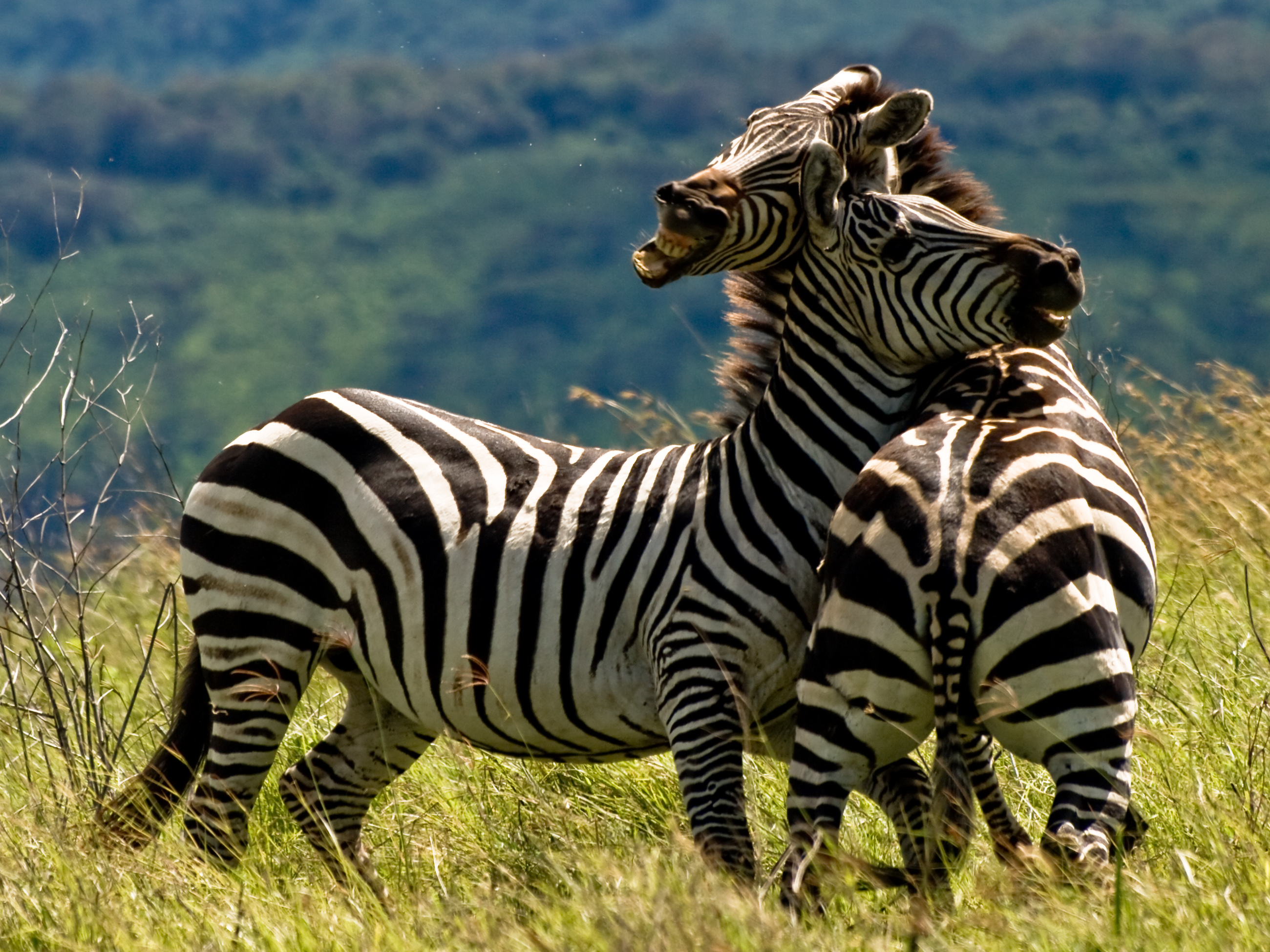 Two zebras fighting in the Ngorongoro Crater, Tanzania